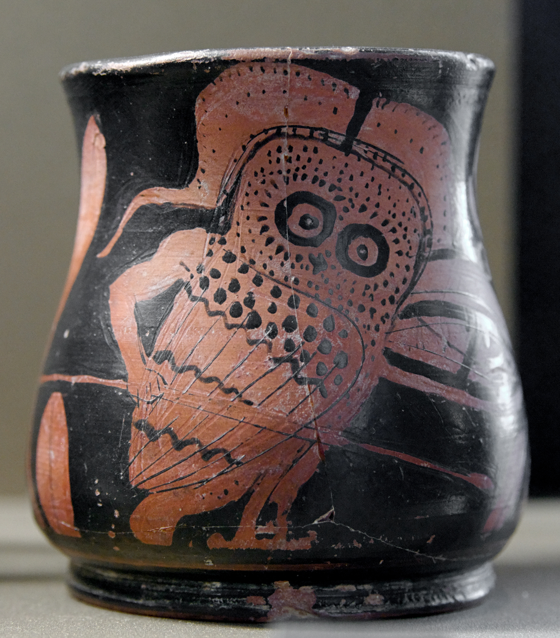 Armed owl. Attic red-figure Anthesteria oinochoe, ca. 410–390 BC. From Greece?